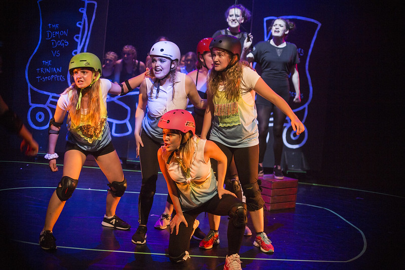 A musical based on the all female sport of roller derby. Commissioned and presented by British Youth Music Theatre at the Barbican Theatre Plymouth